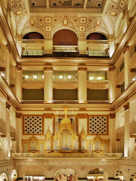 Shows the Wanamaker Organ in the Macy's, Philadelpha, PA, USA